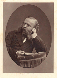 Jan ten Brink (1834-1901), Dutch writer and editor